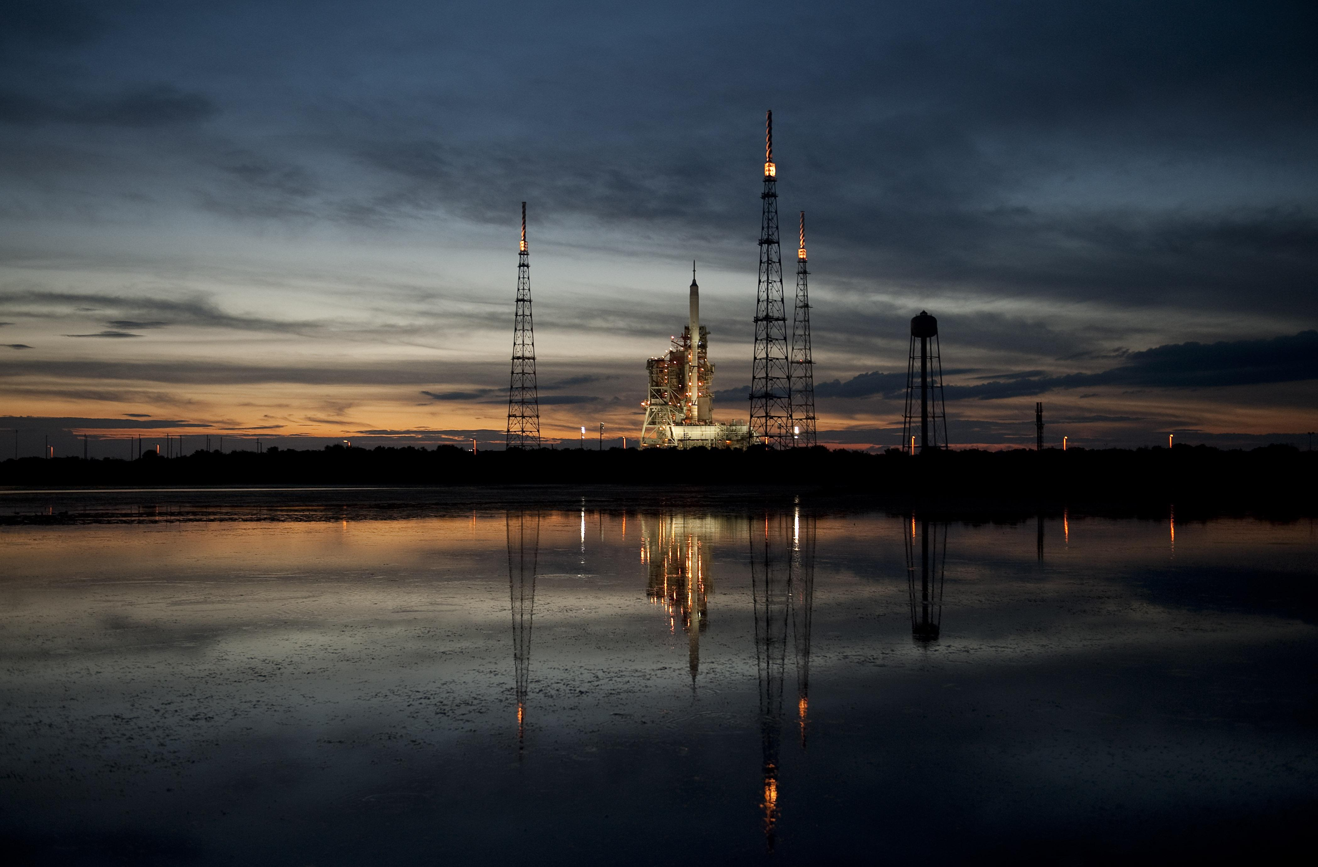 NASA's Ares I-X rocket is seen on Launch Pad 39B at the Kennedy Space Centre in Cape Canaveral, Fla. The flight test of Ares I-X will provide NASA with an early opportunity to test and prove flight characteristics, hardware, facilities and ground operations associated with the Ares I.